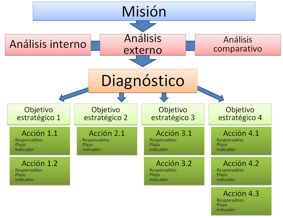 Estrategic planning